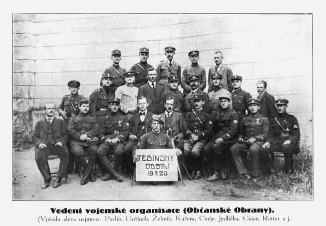 Czech military organisation during the dispute between Czechoslovakia and Poland over Cieszyn Silesia in 1918 - 1920.